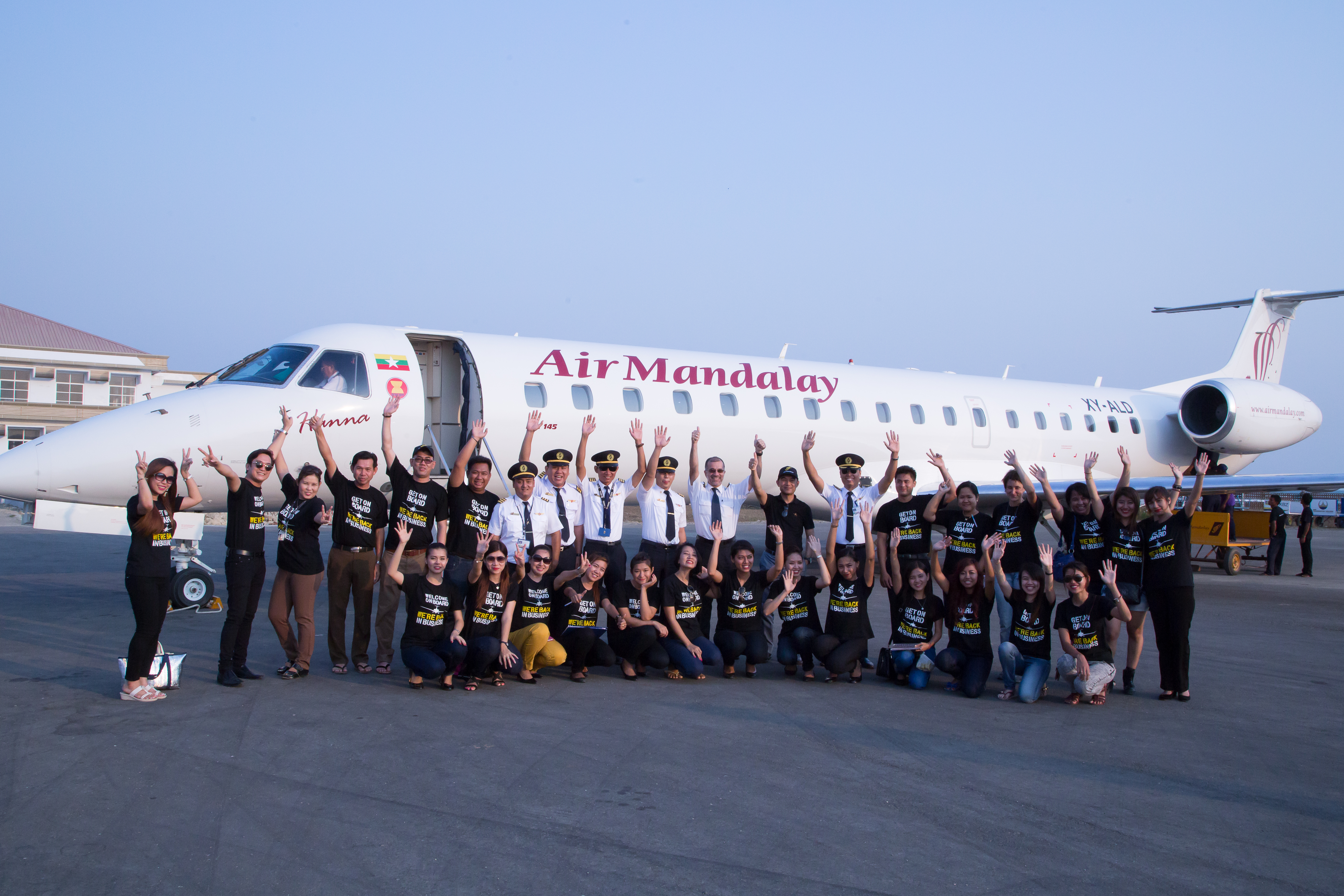 Air Mandalay ERJ145 Jet with cabin crew at Thandwe Airport